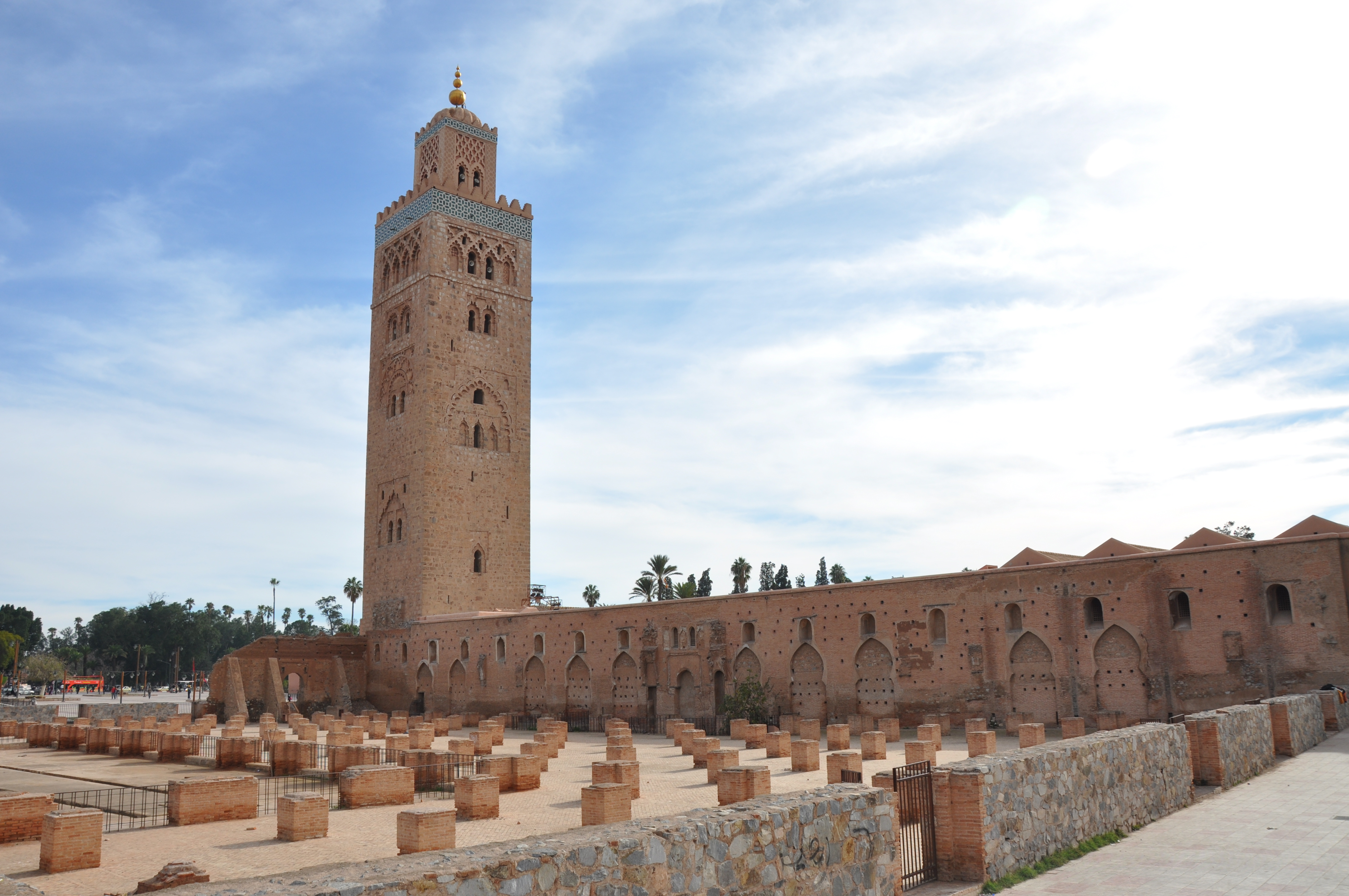 The Koutoubia Mosque or Kutubiyya Mosque (Arabic: جامع الكتبية Arabic pronunciation: [jaːmiʕu‿lkutubijːa(h)]) is the largest mosque in Marrakech, Morocco. The minaret was completed under the reign of the Almohad Caliph Yaqub al-Mansur (1184-1199) and was used as the model for the Giralda of Seville and for the Hassan Tower of Rabat. The name is derived from the Arabic al-Koutoubiyyin, meaning "librarian", since it used to be surrounded by sellers of manuscripts. It is considered the ultimate structure of its kind. The tower is 69 m (221 ft) in height and has a lateral length of 12.8 m (41 ft). Six rooms (one above the other) constitute the interior; leading around them is a ramp by way of which the muezzin could ride up to the balcony. It is built in a traditional Almohad style and the tower is adorned with four copper globes. According to legend, the globes were originally made of pure gold, and there were once supposed to have been only three globes. The fourth globe was donated by the wife of Yaqub el-Mansur as compensation for her failure to keep the fast for one day during the month of Ramadan. She had her golden jewelry melted down to form the fourth globe. The minaret of the Koutoubia is nearly 70 metres high and was the model for the minaret of the Giralda mosque in Seville, which in turn has influenced thousands of church towers in Spain and Eastern Europe.